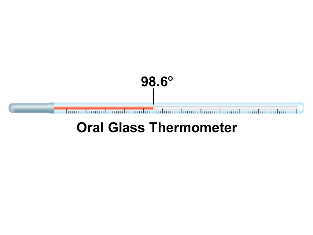 A medical illustration depicting an oral glass thermometer.